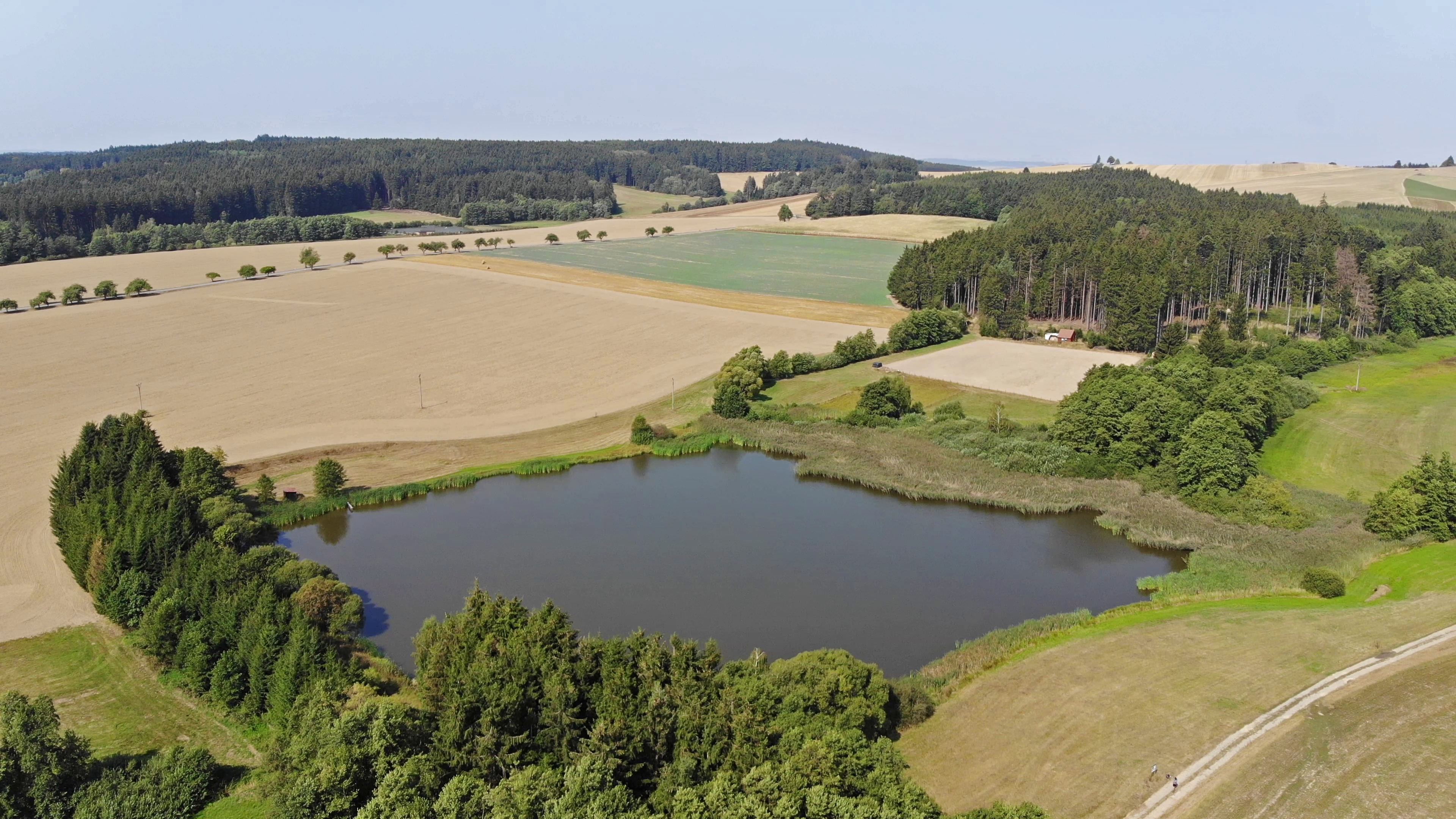 Natural monument Rychtarsky rybnik near Arnolec, Czech Republic, drone shot